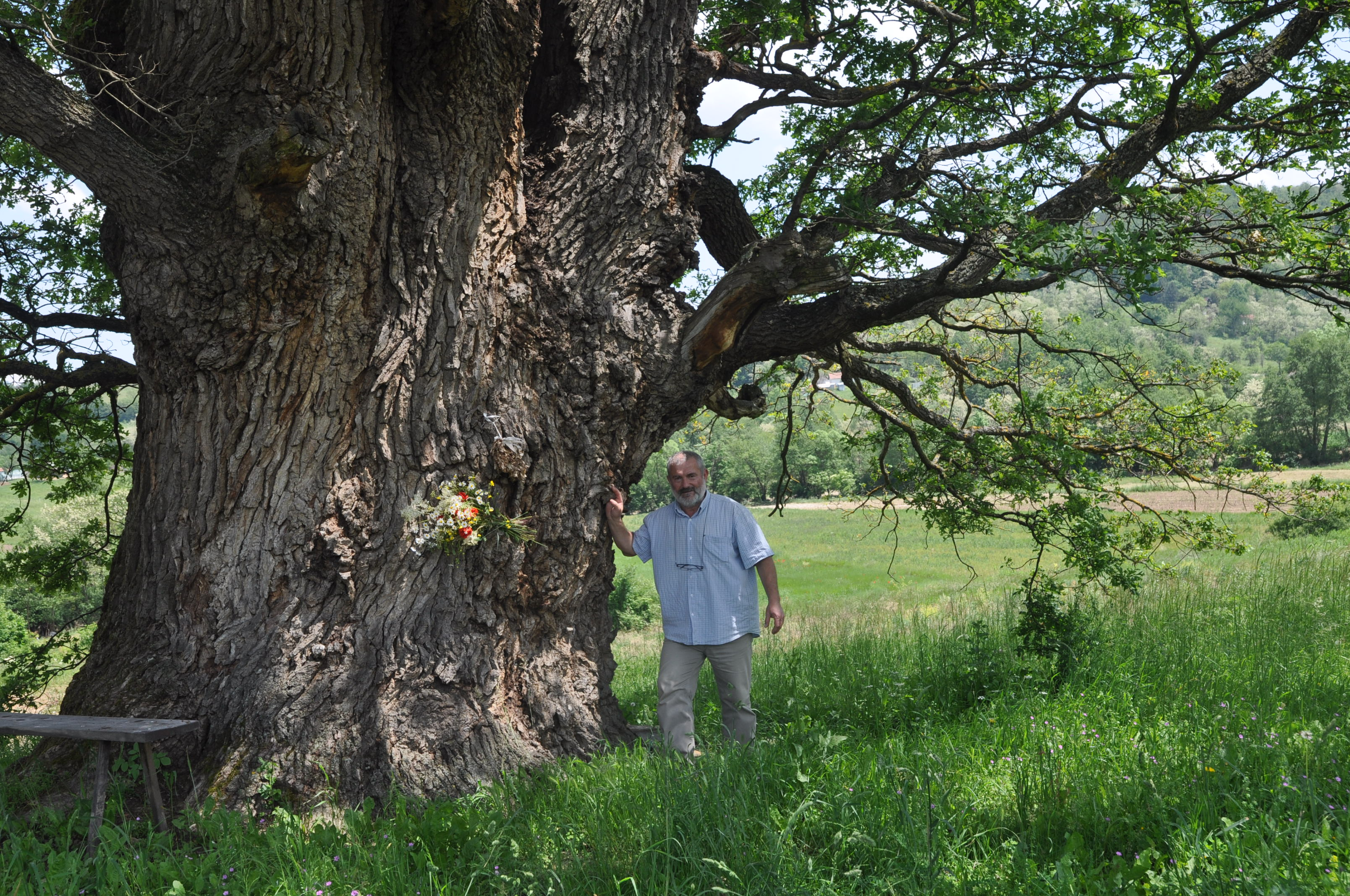 Zapis - Sacred Tree, Оак in village Šarani, municipality Gornji Milanovac, Serbia. Zapis who stopped construction of highway Corridor XI from june 2013.